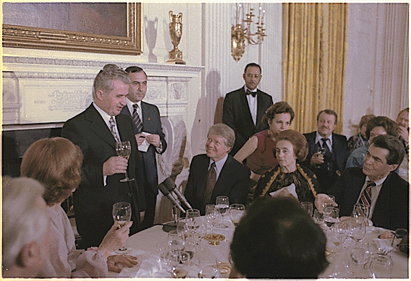 Jimmy Carter and Rosalynn Carter host state dinner for the President of Romania, Nicolae Ceausescu.